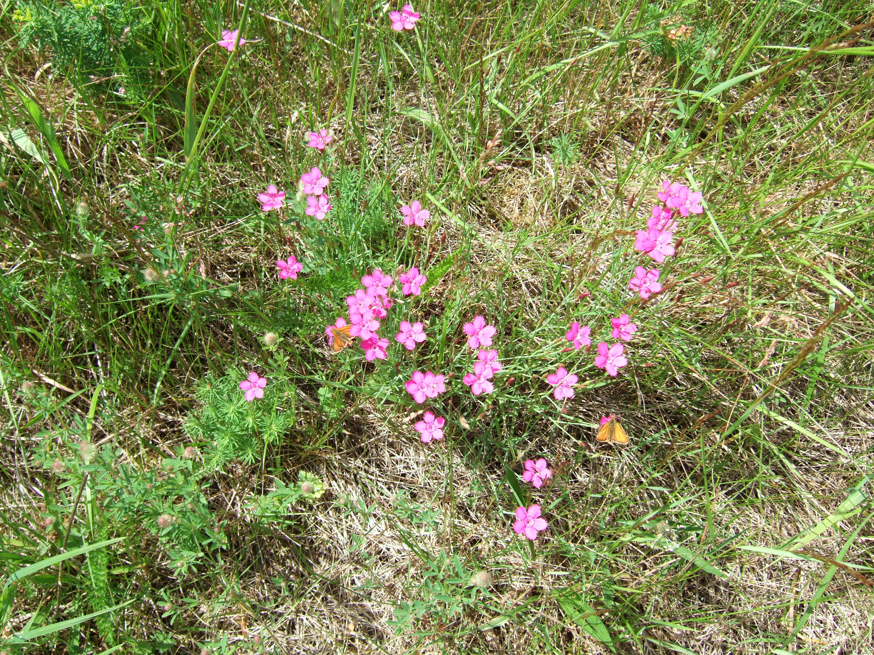 Dianthus deltoides Kellerwald-Edersee National Park